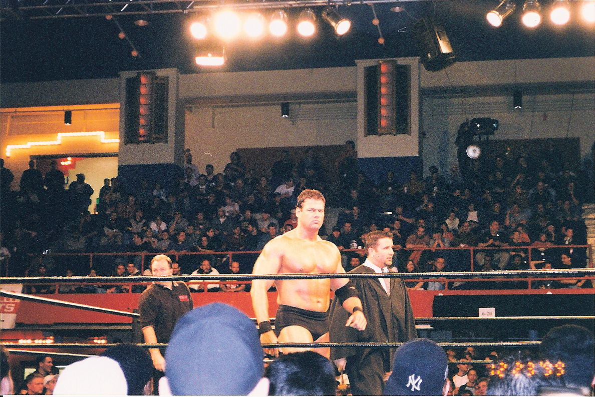 Probably wondering why he's with "the judge" Jeff Jones ECW @ Westchester County Center in White Plains, NY TNN TV Taping - 12.23.99